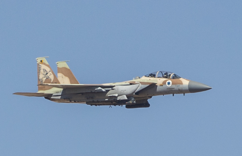 Makhtesh Ramon (Ramon crater), located in Israel’s Negev desert, is a 40 km long crater that varies between 2 and 10 km wide, and up to 500 meters deep. Unlike typical impact or volcanic craters, a makhtesh is created by erosion and may be unique to the Negev/Sinai region. Makhtesh Ramon is the largest of the five in the Negev.The Israeli Air Force (from Ramon Airbase) periodically uses the airspace around and in Makhtesh Ramon for training and simulated combat flight.